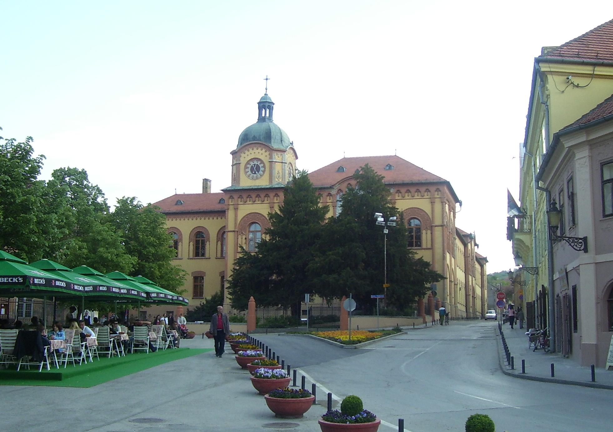 Gymnasium of Karlovci, Sremski Karlovci, Serbia. Overview